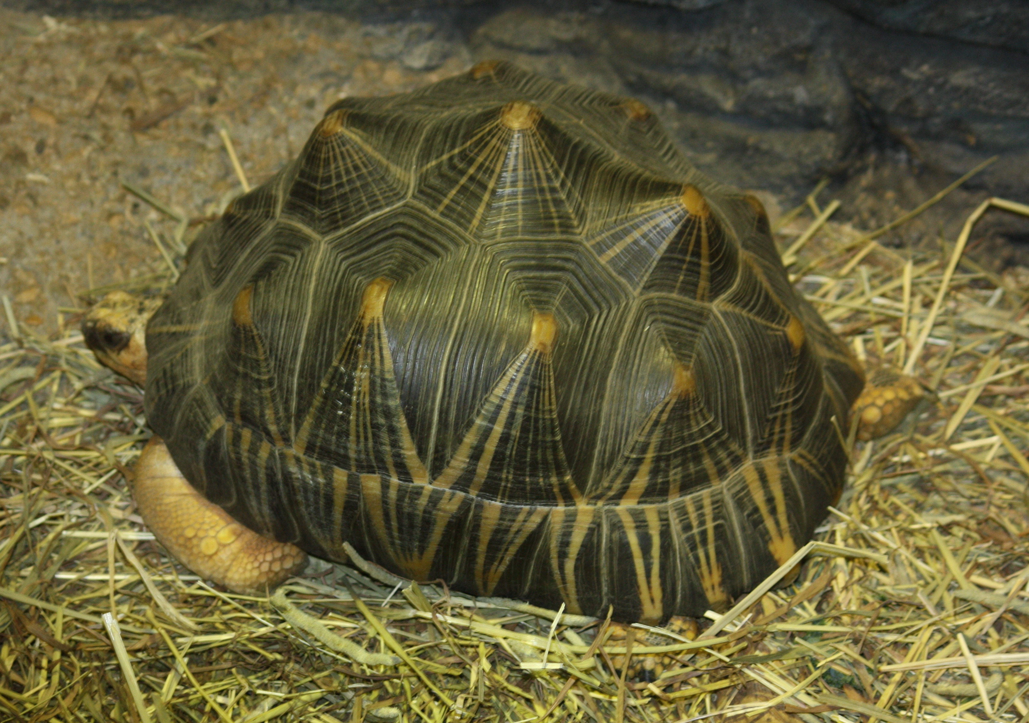 Radiated Tortoise Astrochelys radiata at Cincinnati Zoo